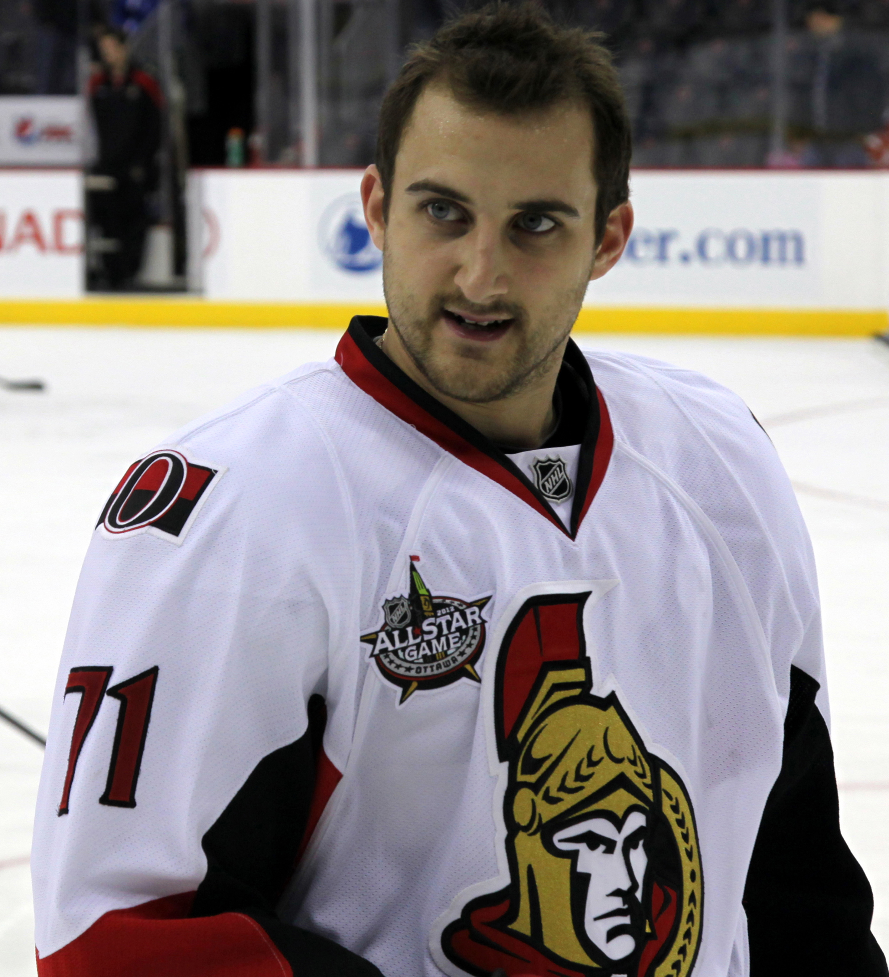 Nick Foligno in December 2011.